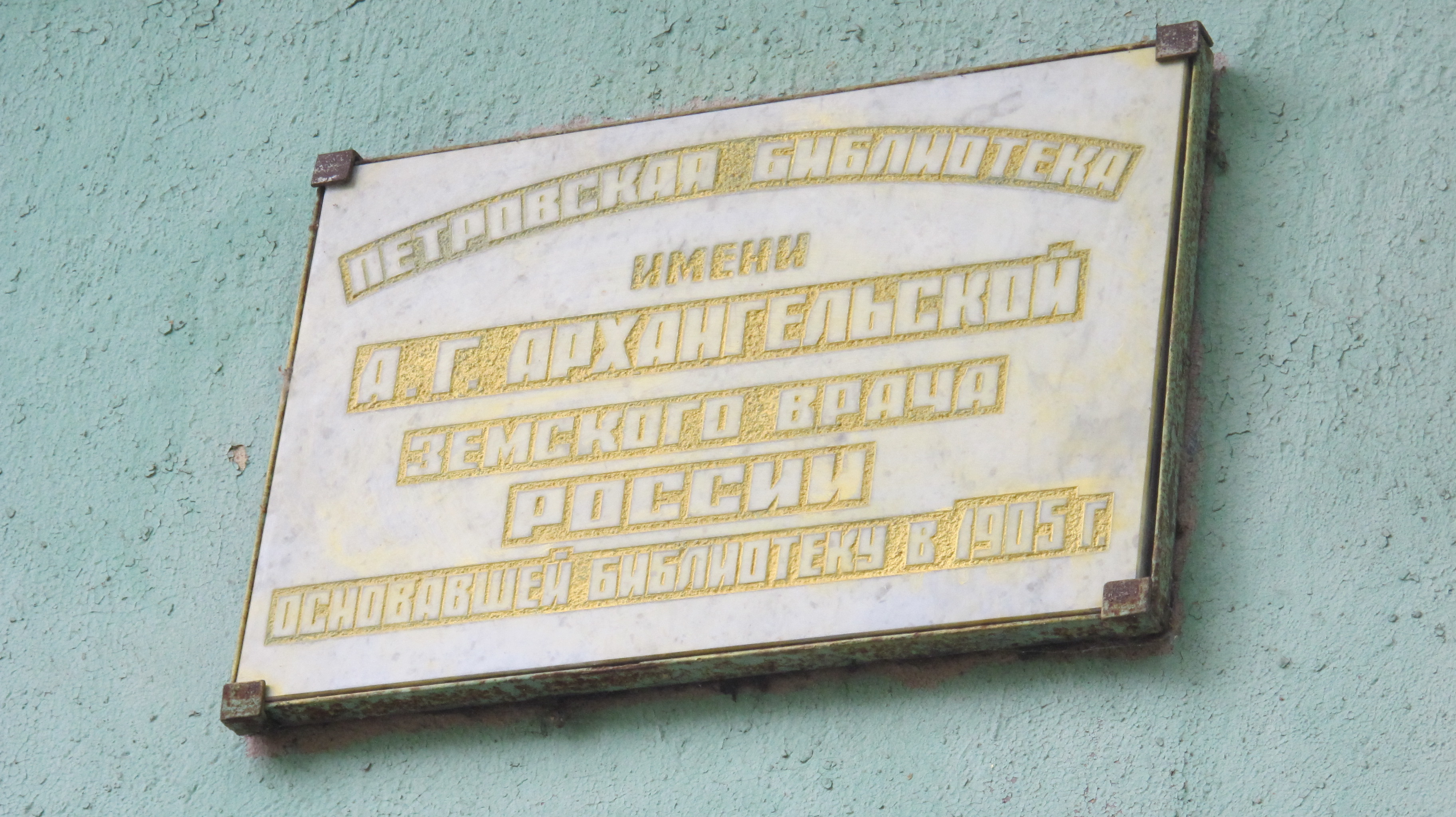 Wikiexpedition to Kaluga 2016-06-11.